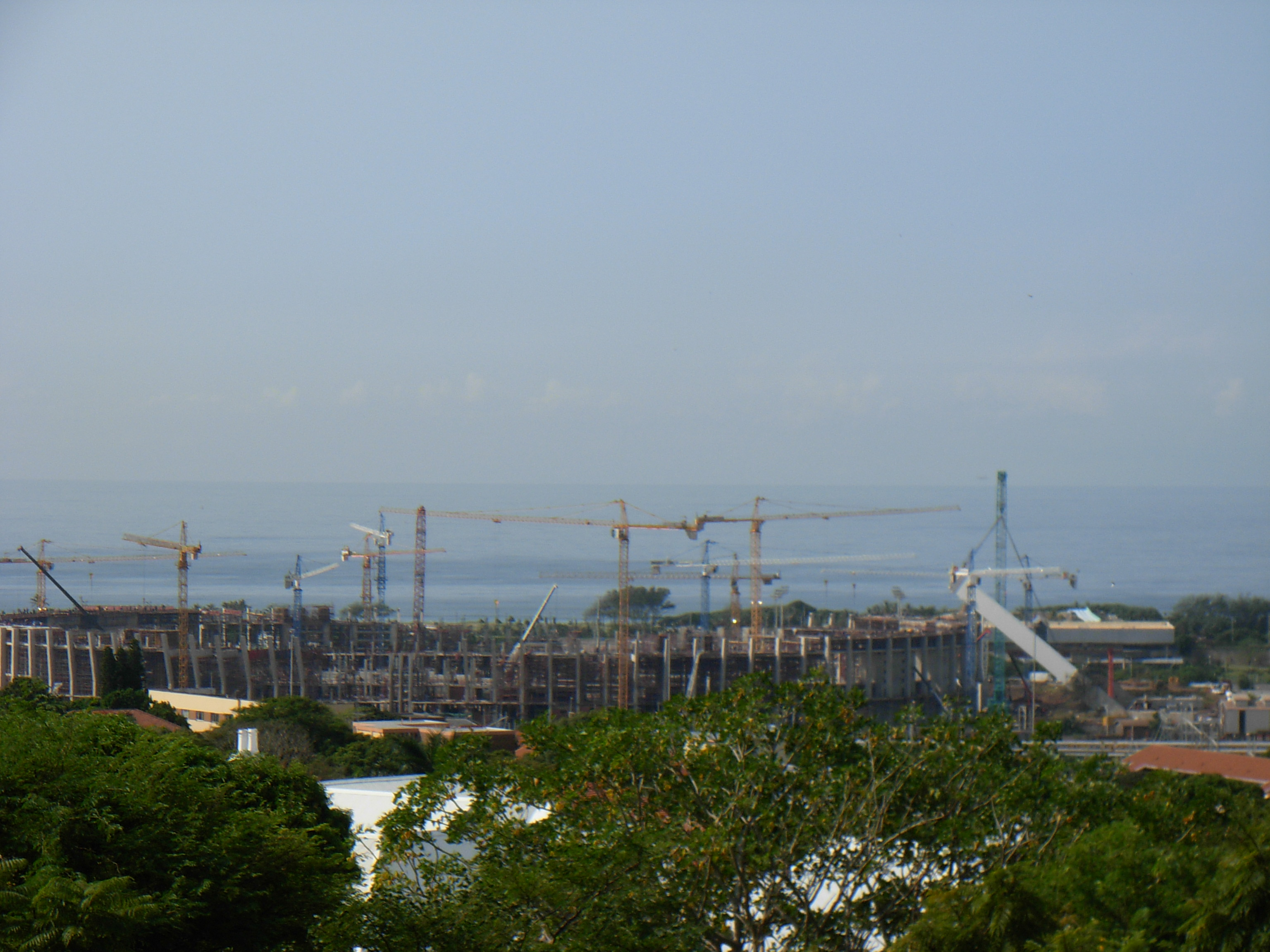 Moses Mabhida Stadium in Durban South Africa, under construction